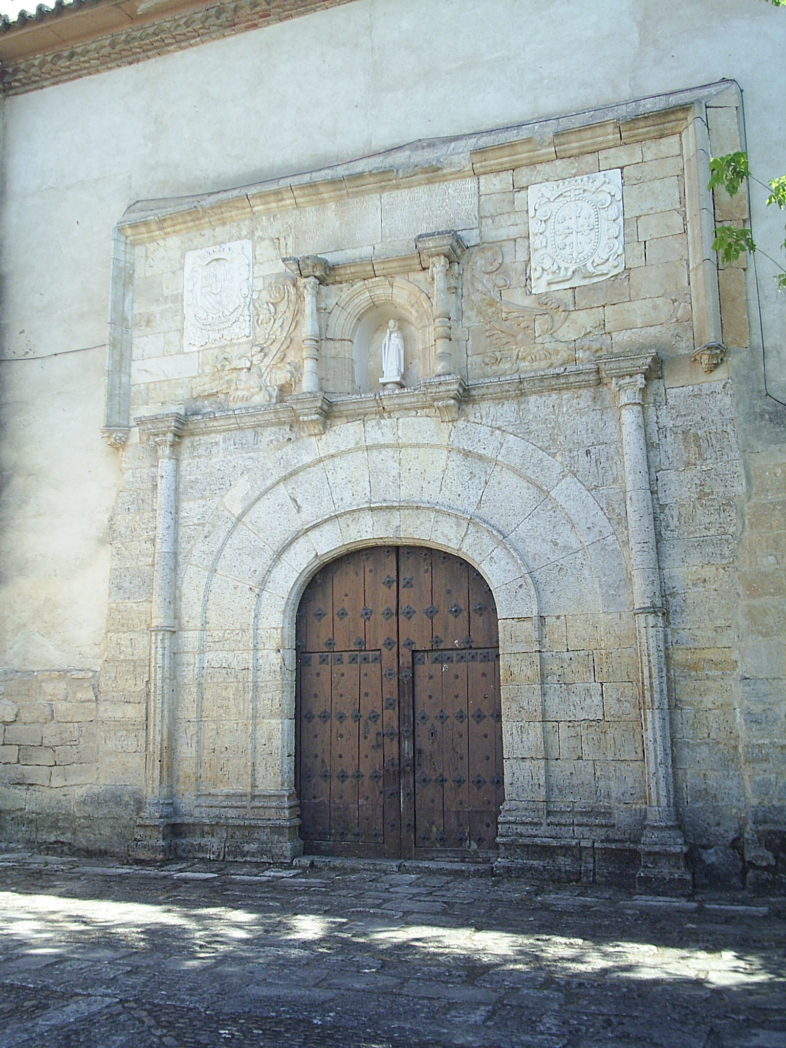 Monastery of Sancti Spiritus of Toro, in Zamora. (Spain)